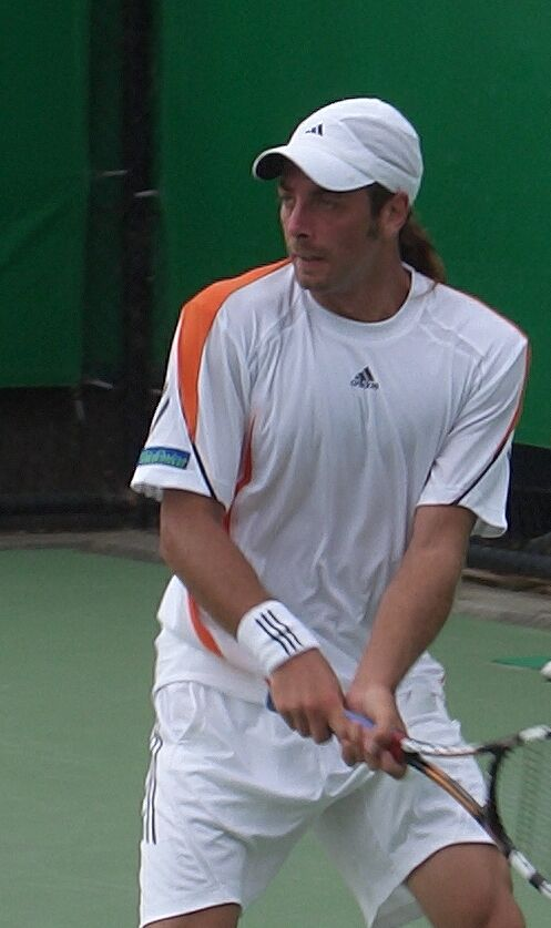 Nicolás Massú during his first-round match of the 2006 Australian Open. He played Gilles Simon. Massú lost.